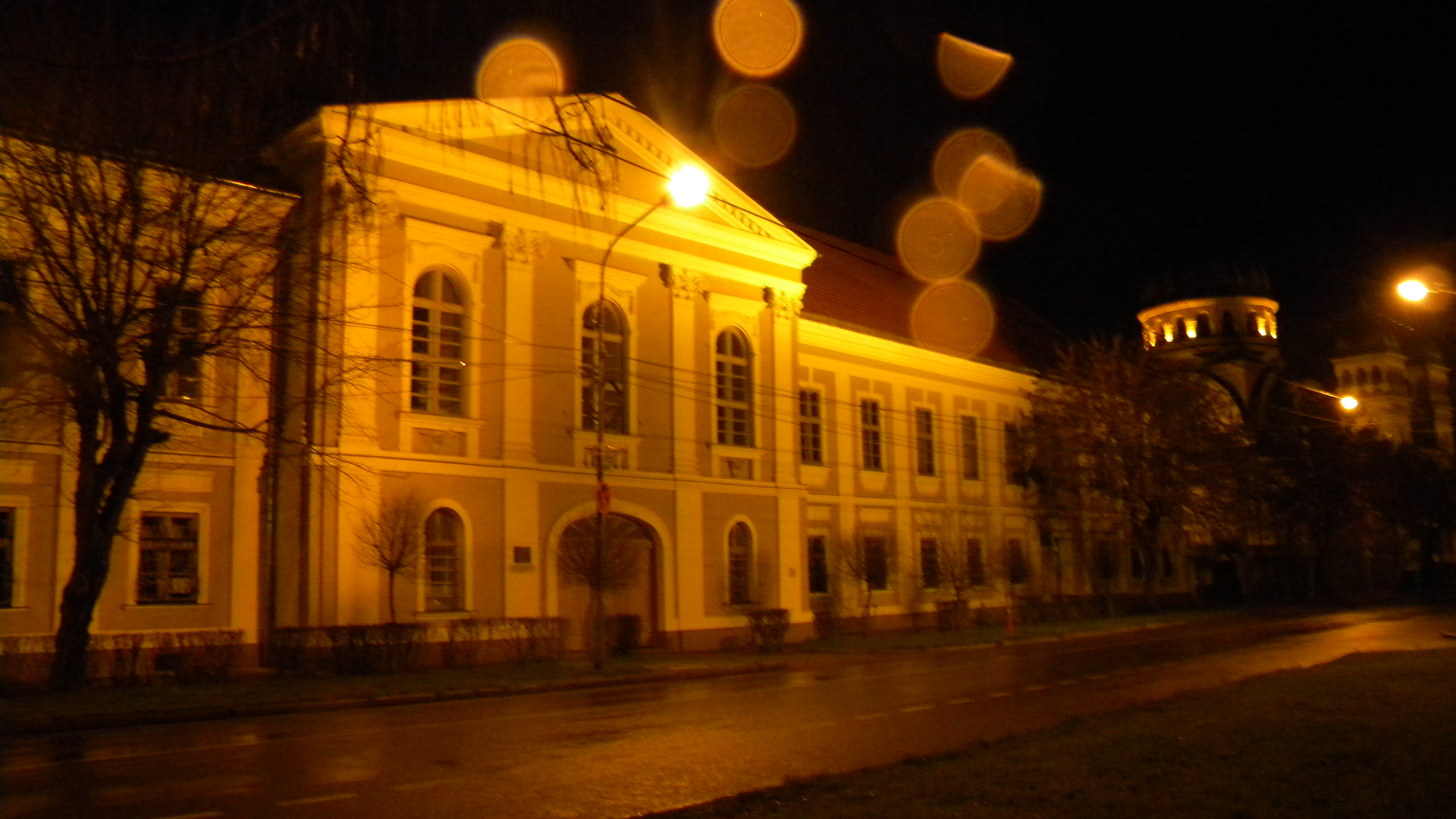 Bishop's Palace, Satu Mare (Roman Catholic) + Sfânţii Arhanghelii Mihai şi Gavril greek catholic church